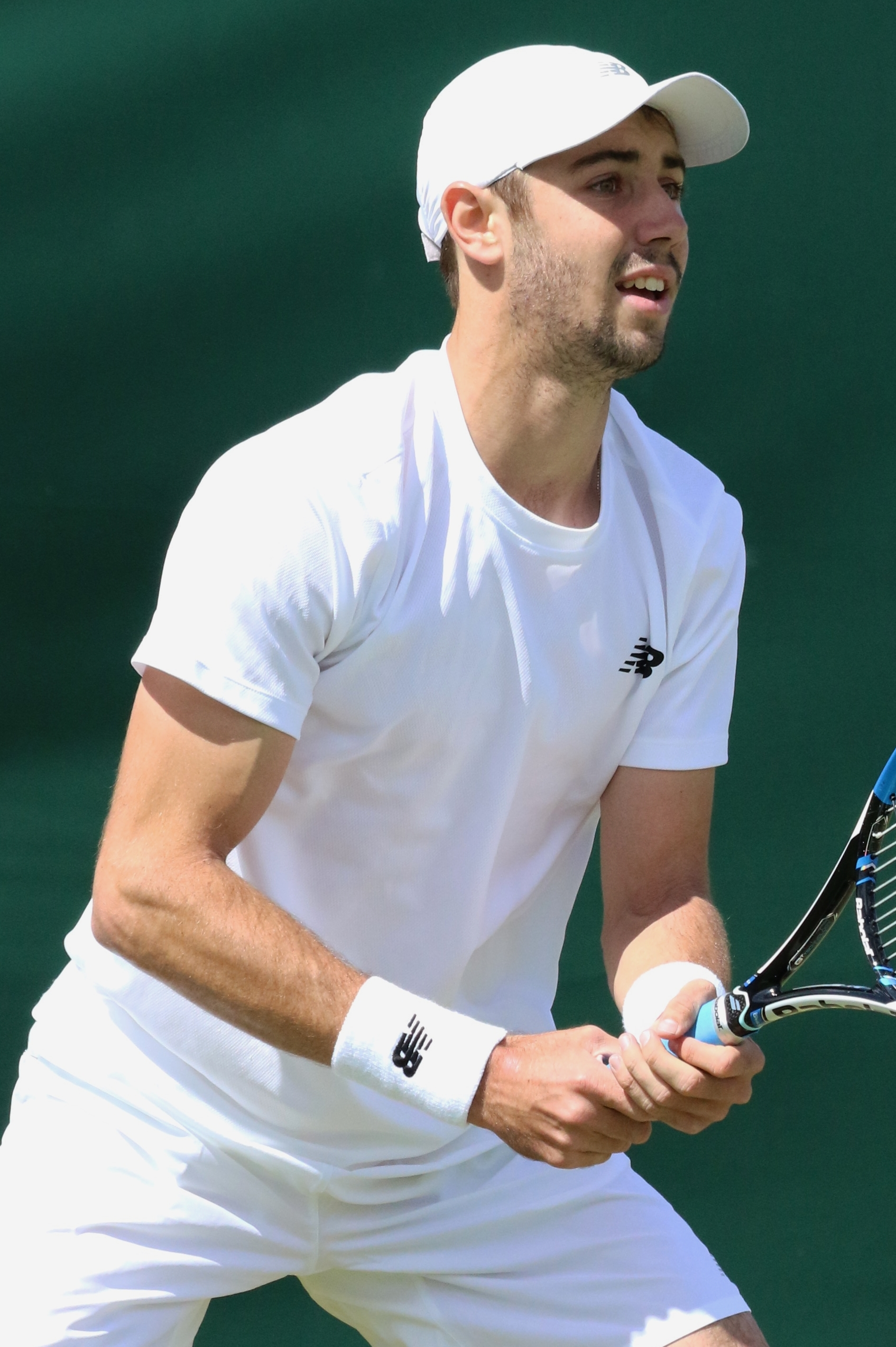 Thompson WM16 (19)